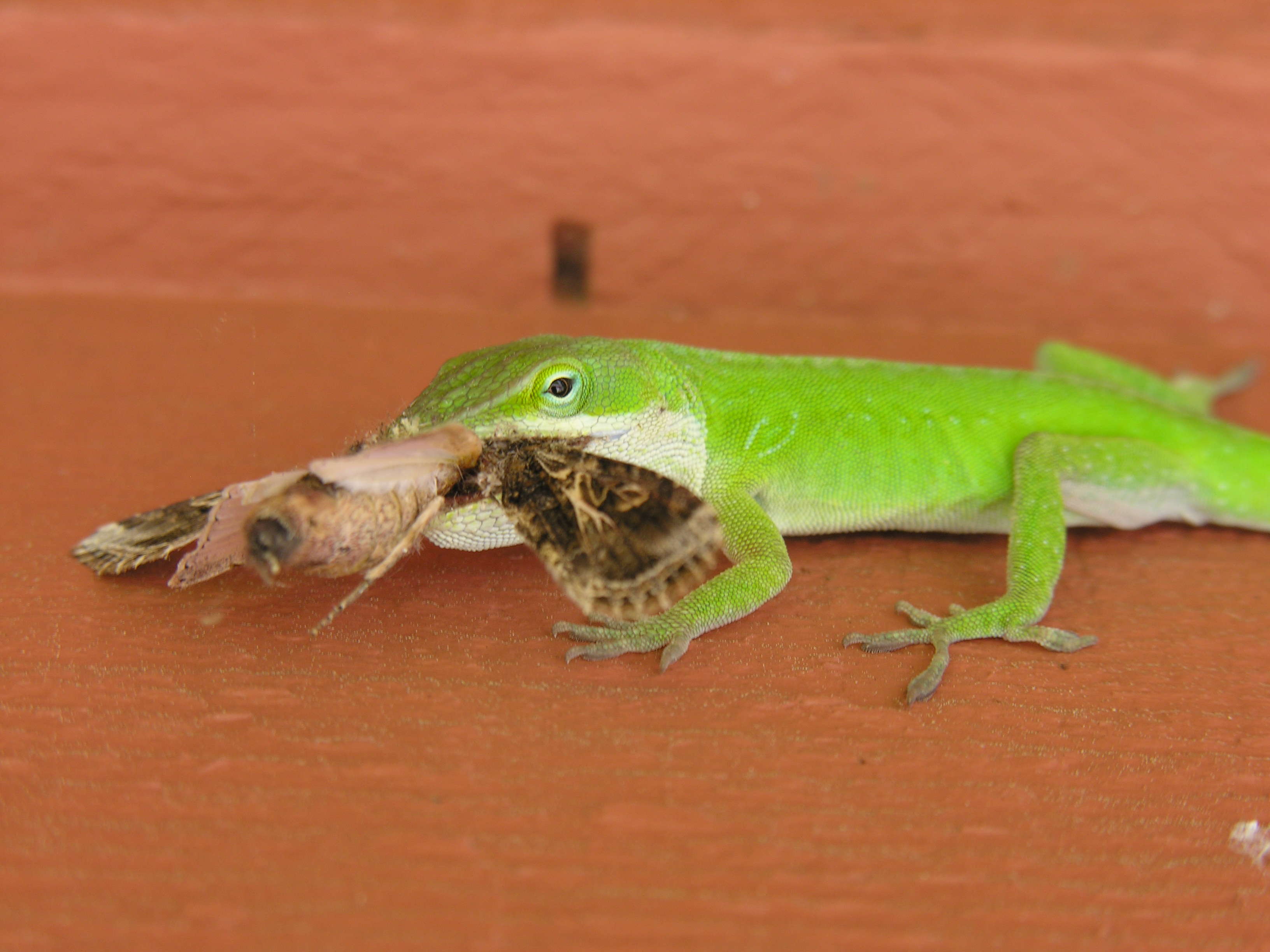 A Carolina anole eating a moth